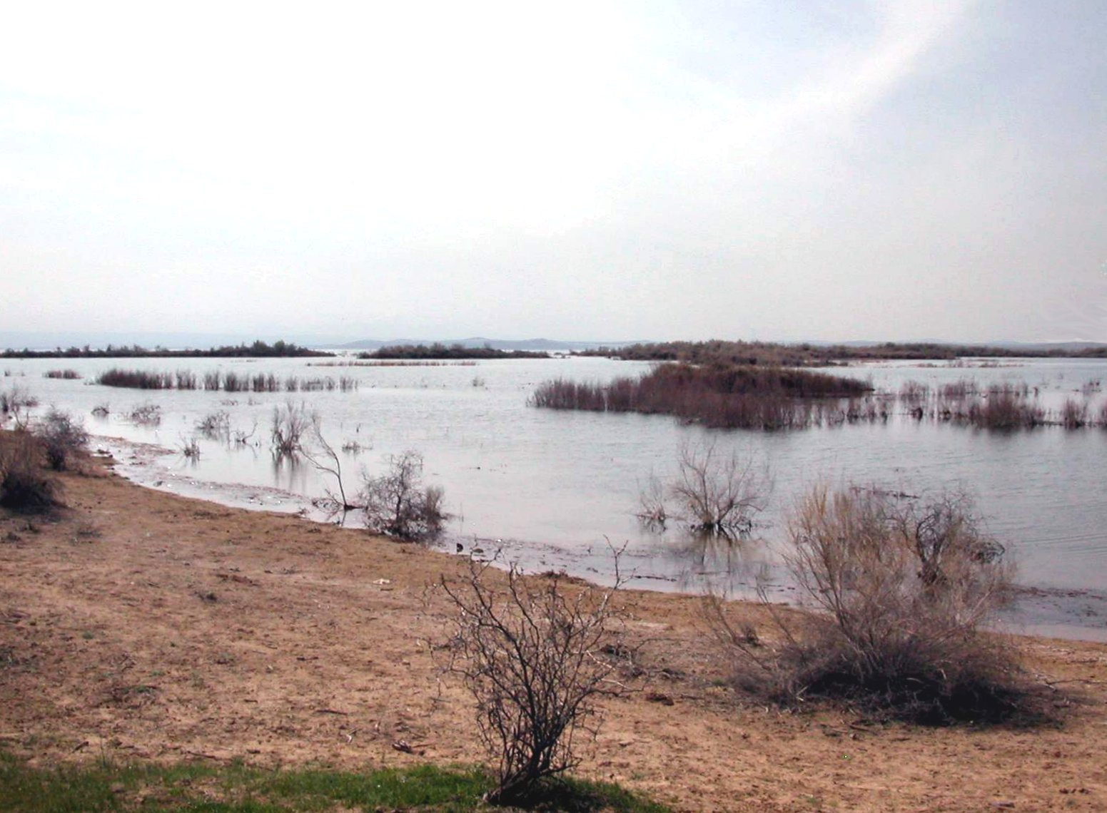 Lake Aidar, Uzbekistan